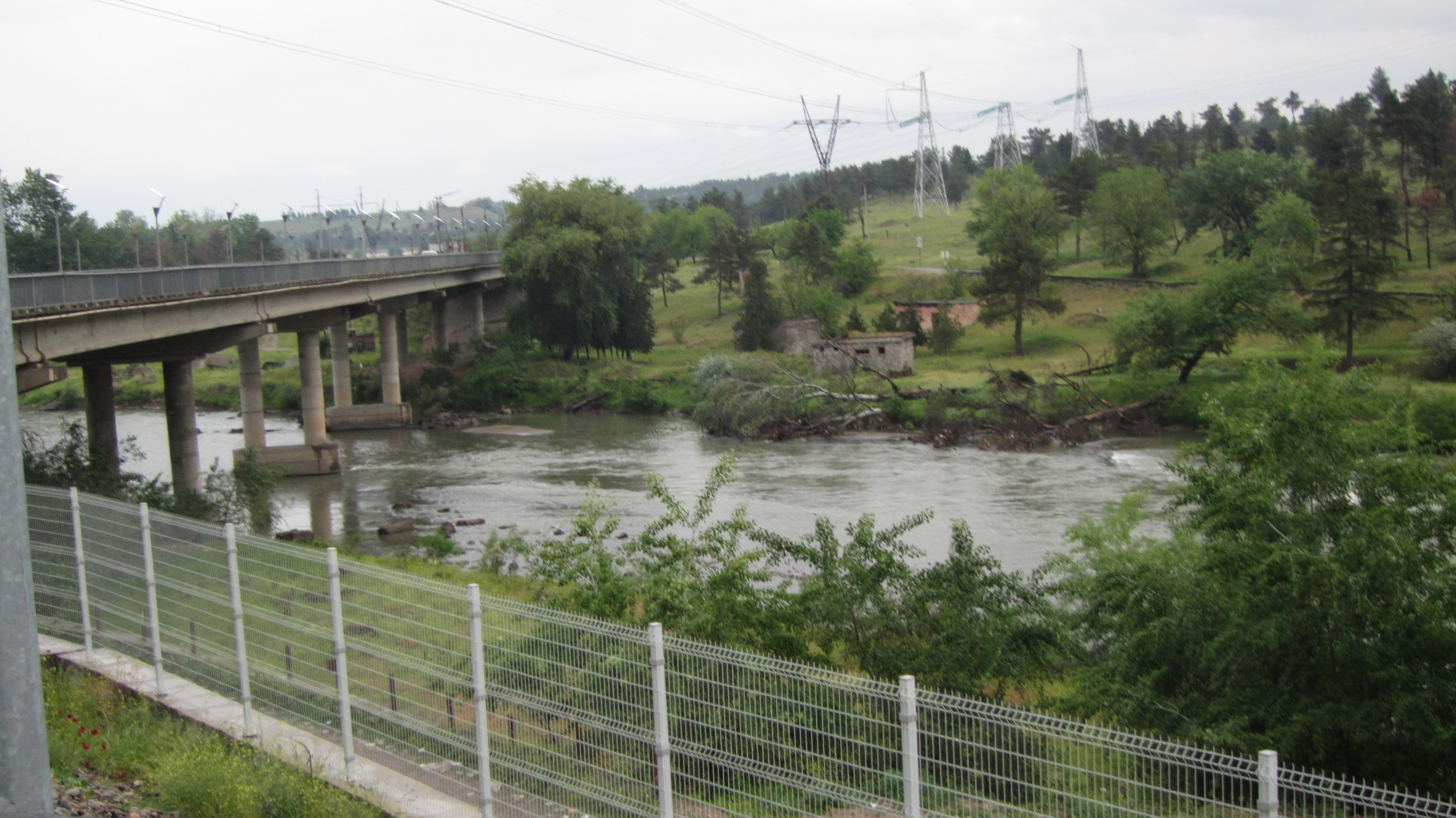 Khrami river